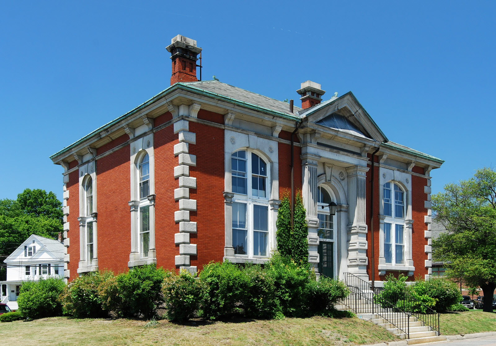 Former library, Braintree, Massachusetts Built in 1874.